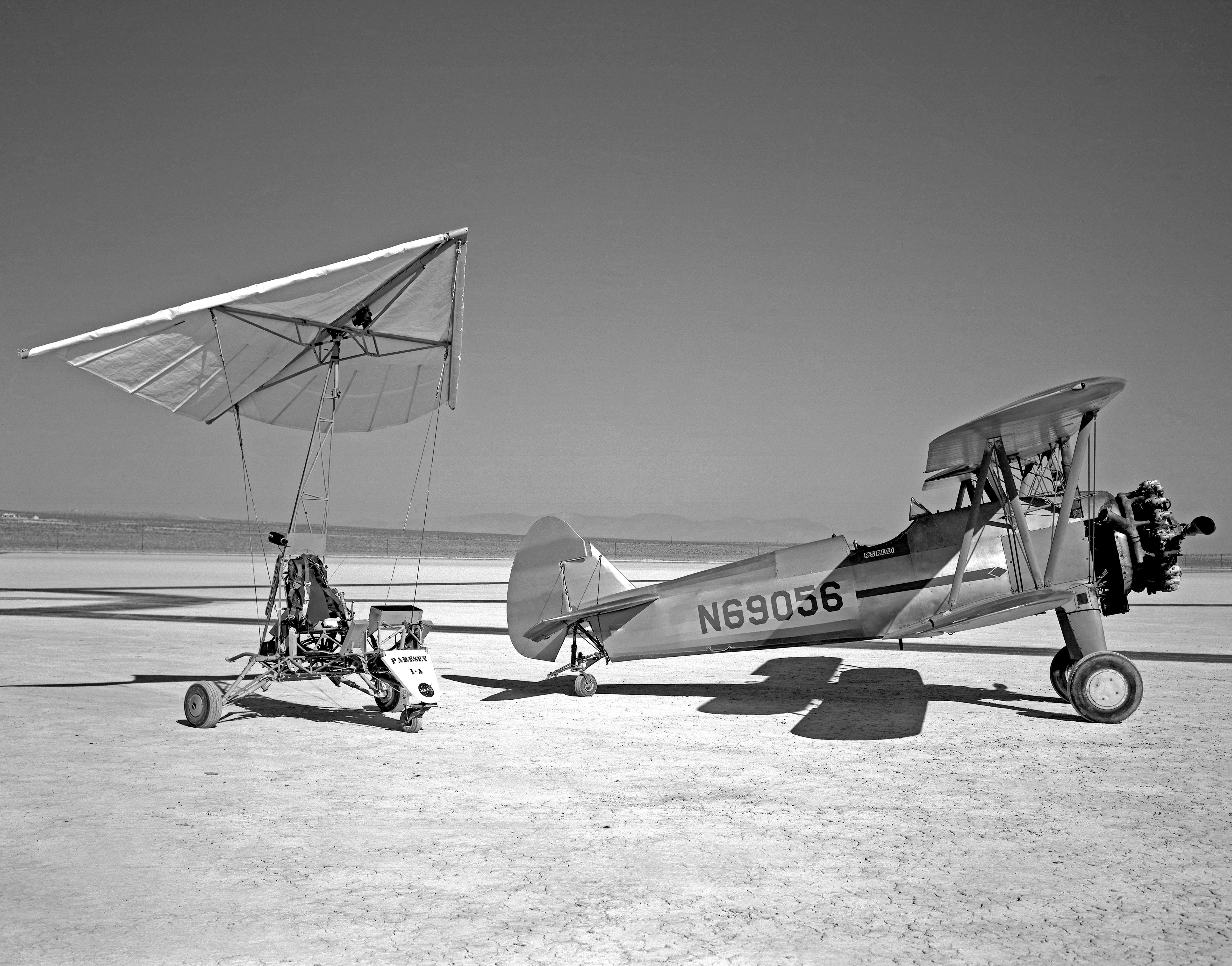 The Paresev 1-A (Paraglider Research Vehicle) and the tow airplane, 450-hp Stearman Sport Biplane sitting on Rogers dry lakebed, Edwards, California. The control system in the Paresev 1-A had a more conventional control stick position and was cable-operated. The main landing gear used shocks and bungees with the 150-square-foot wing membrane being made of 6-ounce unsealed Dacron.